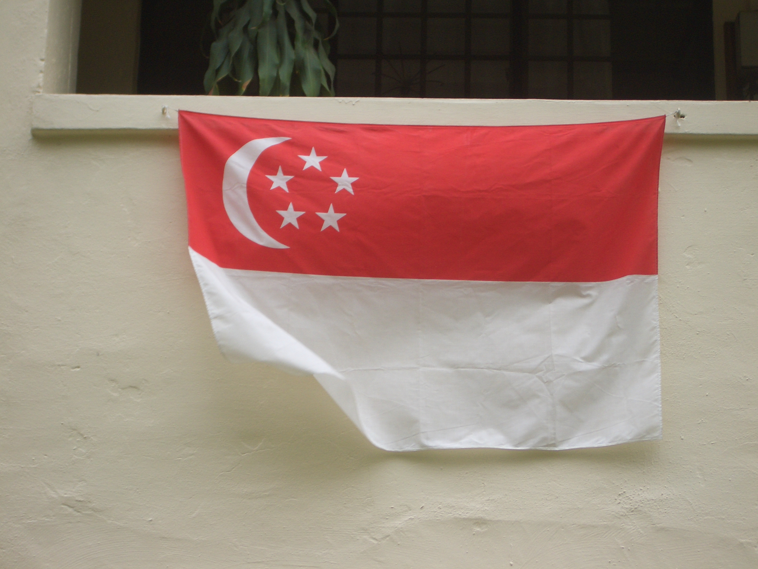 The national flag of Singapore displayed at a window in Singapore, photographed by René Modery on Singapore's National Day (9 August) in 2006.